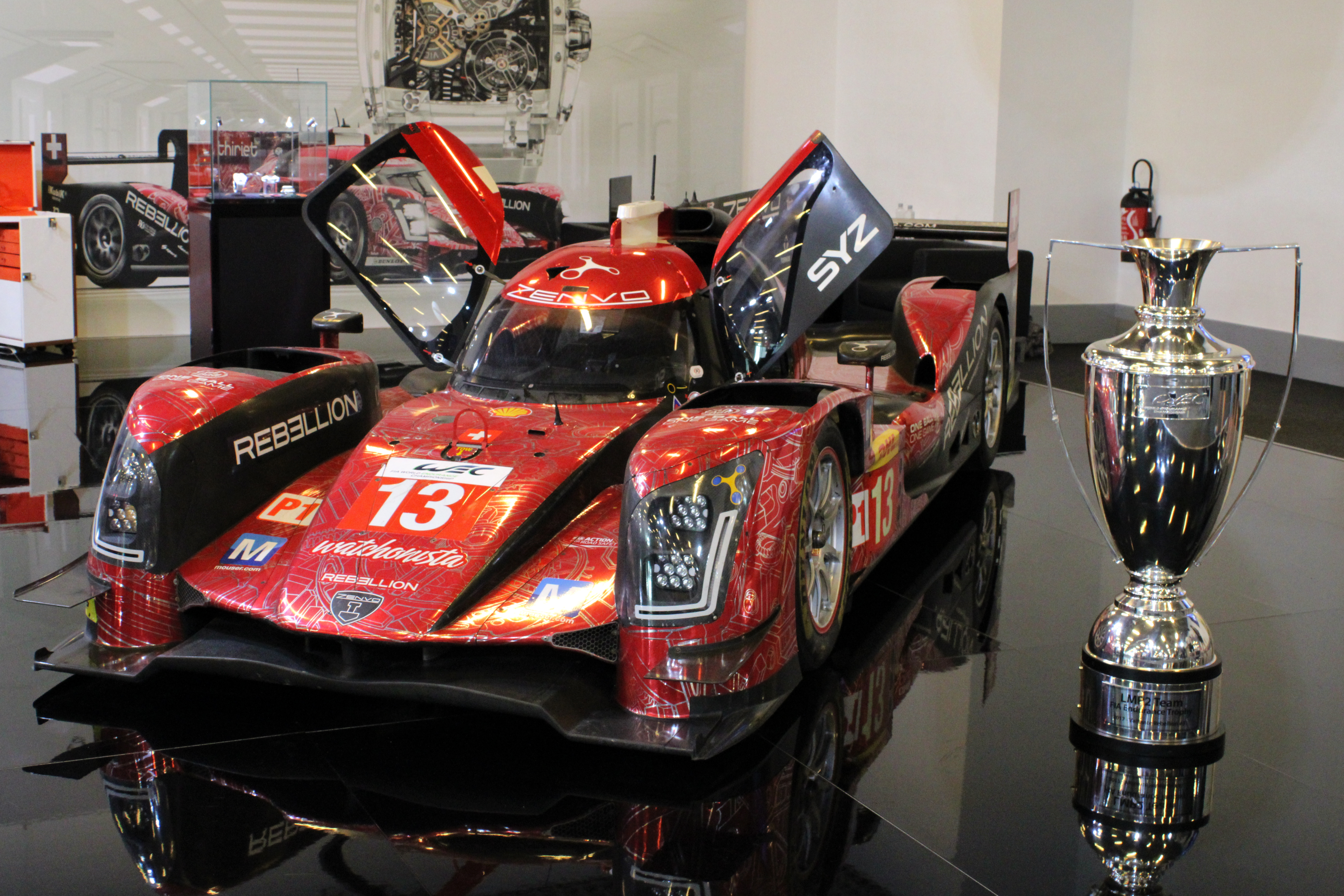 Rebellion R-One LMP1 at Top Marques 2019